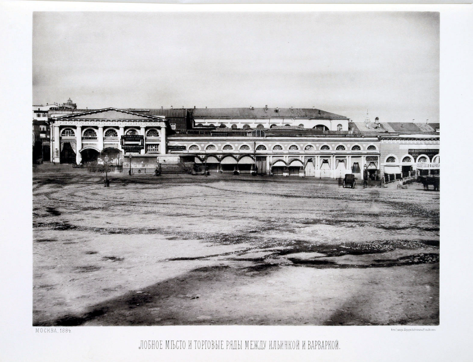 Plate 49: Lobnoe mesto and Middle Trade Rows on Red Square, Moscow.